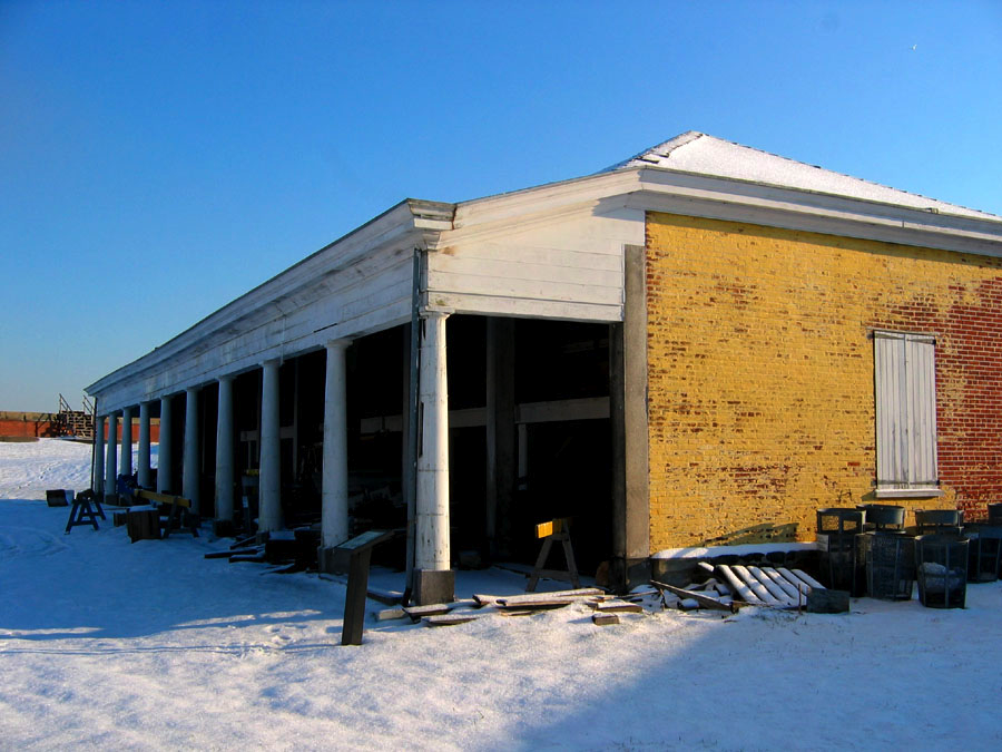 Fort Mifflin Artillery Shed Taken in Philadelphia, Pennsylvania, in December 2003.